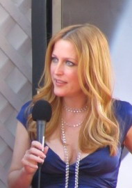 Actress Gillian Anderson at the premiere of "X-Files: I Want To Believe"